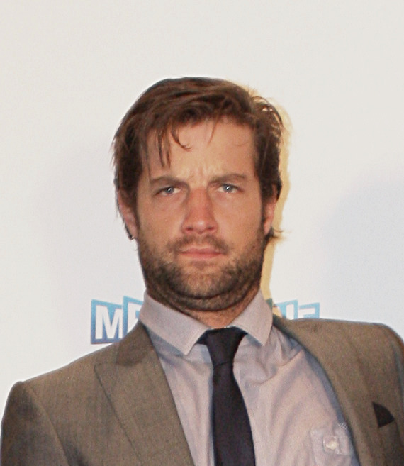 Actors Luke Jacobz, Axle Whitehead and Josh Quong Tart at the 2011 Logie Awards.